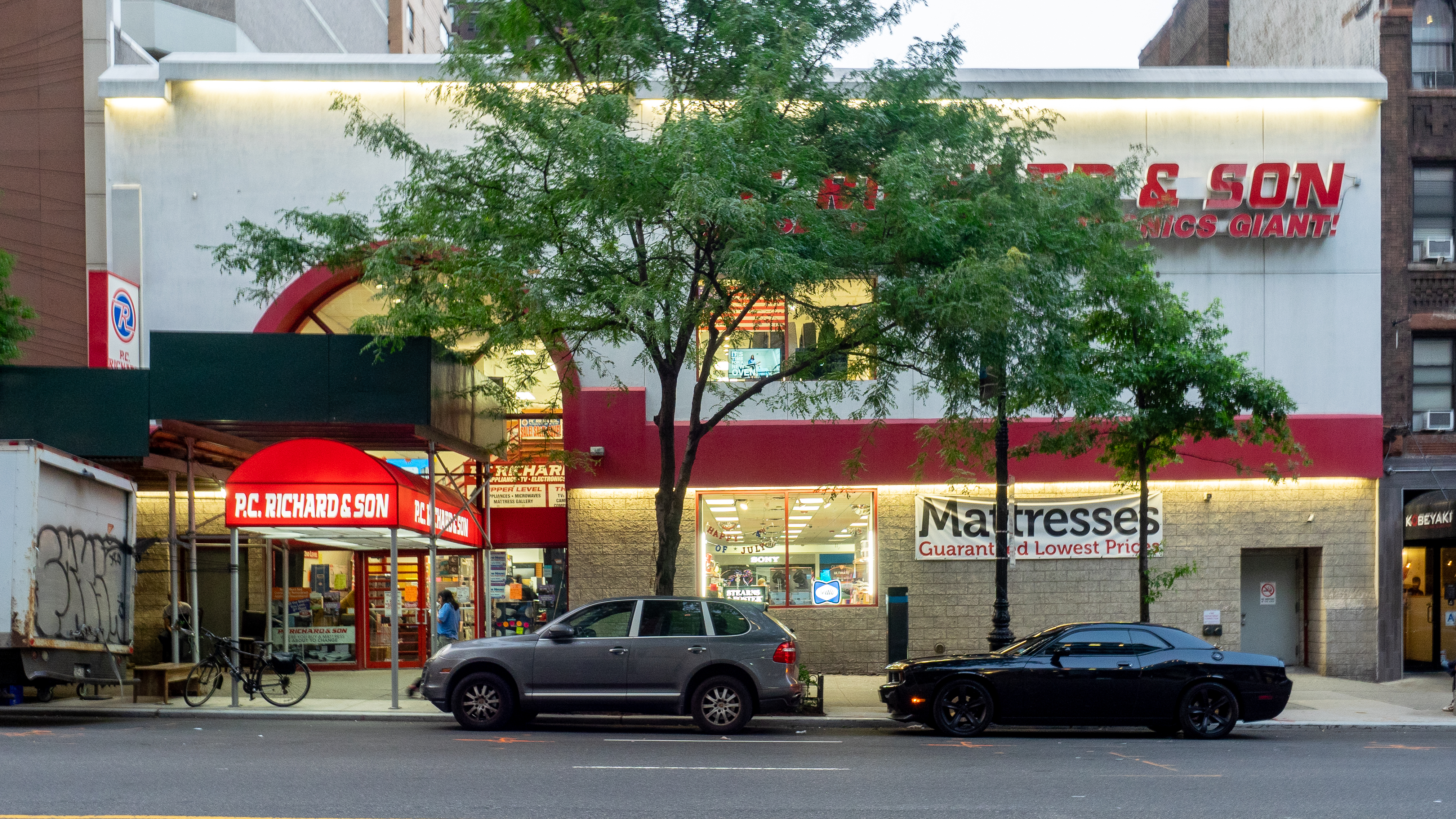 Upper East Side, Manhattan, New York